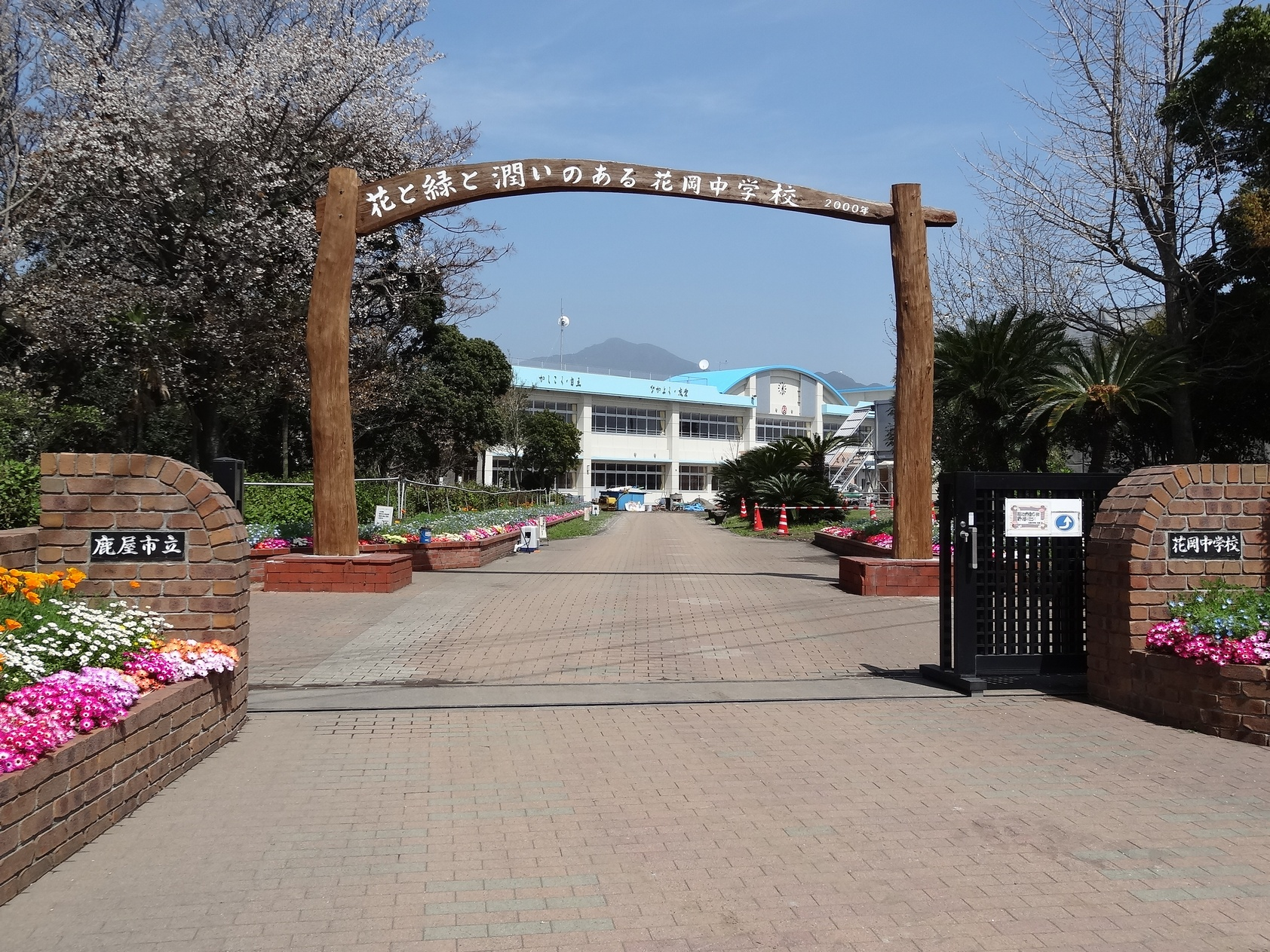 Kanoya Municipal Hanaoka School (Kanoya City, Kagoshima, Japan)